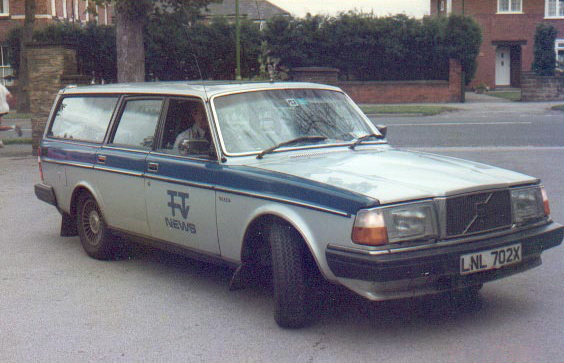 One on TTTV's fleet of Volvo estate cars used as an ENG unit.